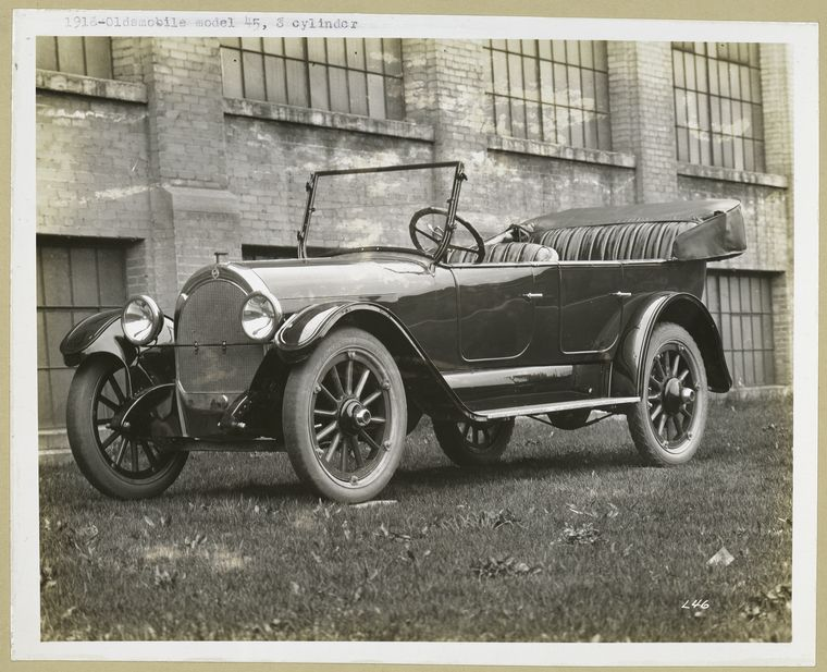 Digital ID: 482214. 1918 Source: Photographs of General Motors and Chrysler car and truck models, 1902 - 1938. / General Motors Company. Oldsmobiles 1897 -1938. Photographs - Specifications. ( Repository: The New York Public Library. Science, Industry and Business Library. General Collection Division. See more information about and others at Persistent URL: Rights Info: No known copyright restrictions; may be subject to third party rights (for more information